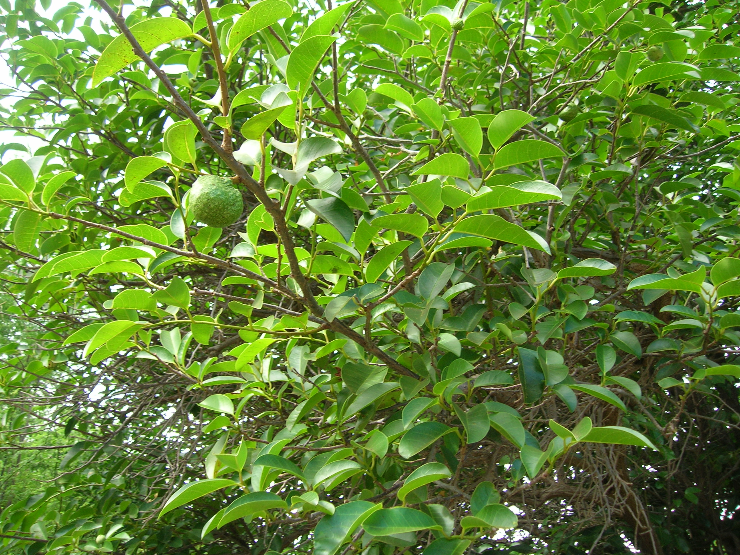 Annona glabra (habit). Location: Molokai, Kalanianaole Colony